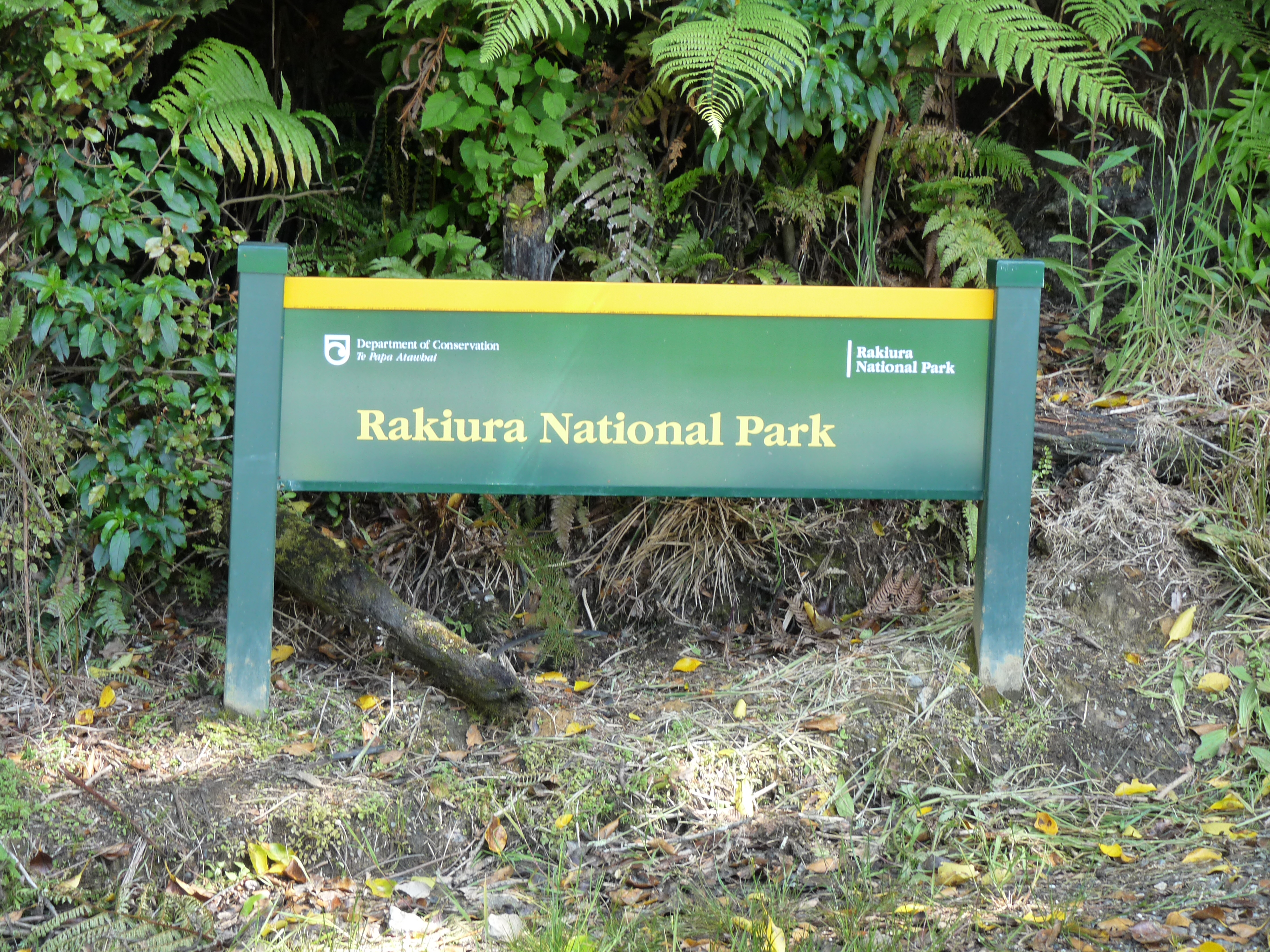 Entrance of the Rakiura National Park, near Oban, Stewart Island, New Zealand